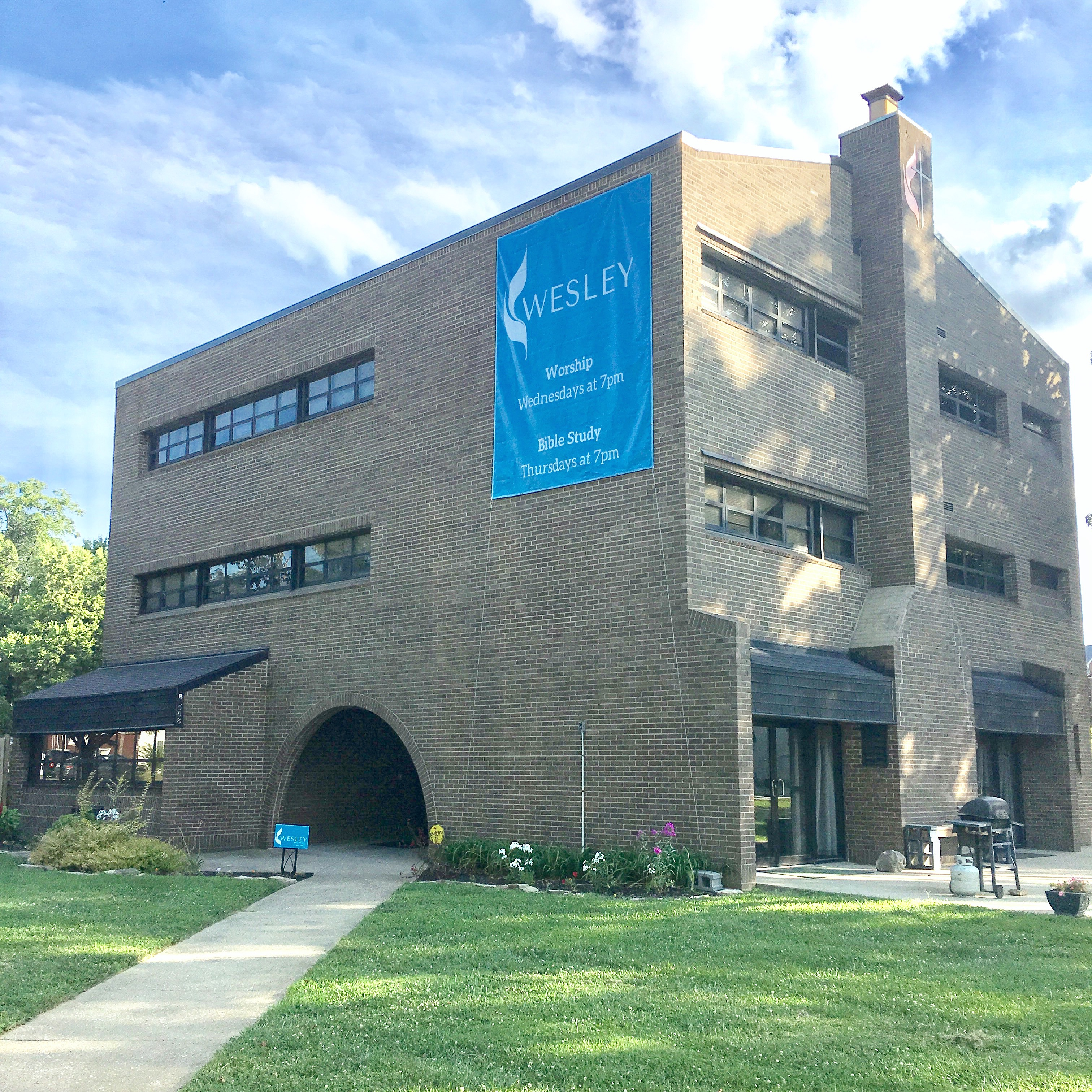 Image of The Wesley Foundation at the University of Kentucky from the sidewalk.